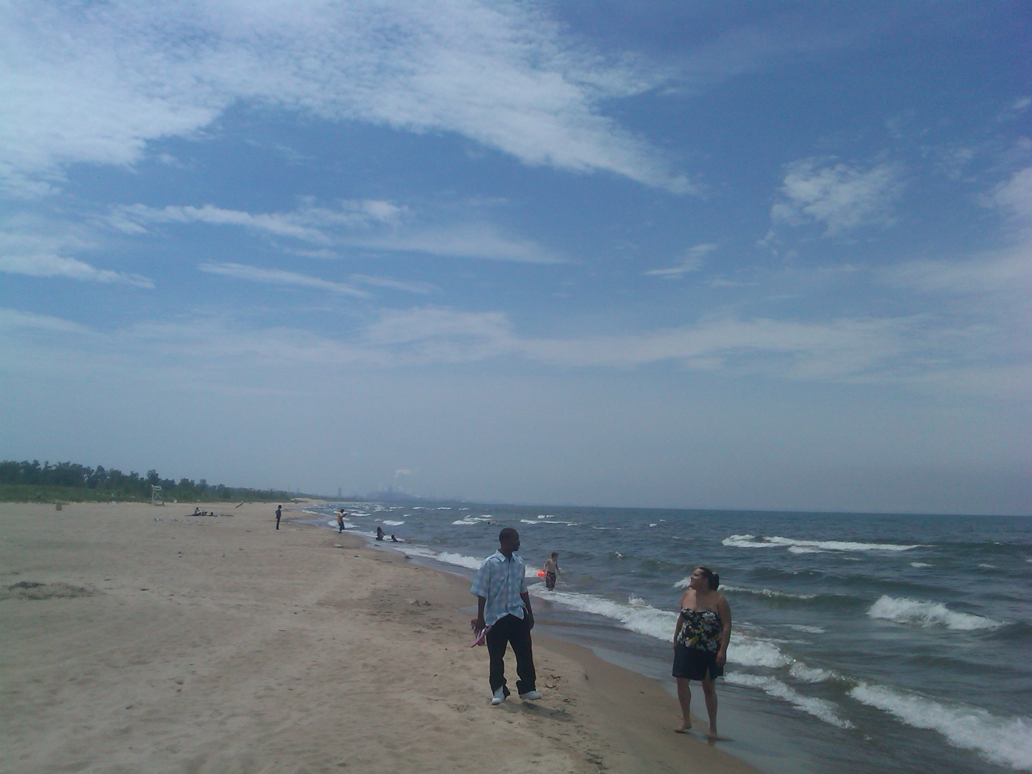 Lake Street Beach in Miller Beach Community of Gary